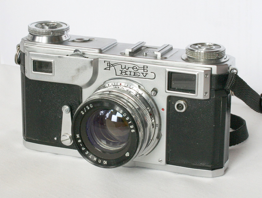 Kiev-4A rangefinder camera with Jupiter-8M 50/2 lens